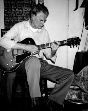 Derek Bailey playing the guitar